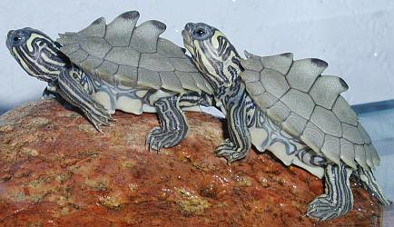 Black-Knobbed Sawback Hatchlings (Graptemys nigrinoda nigrinoda)